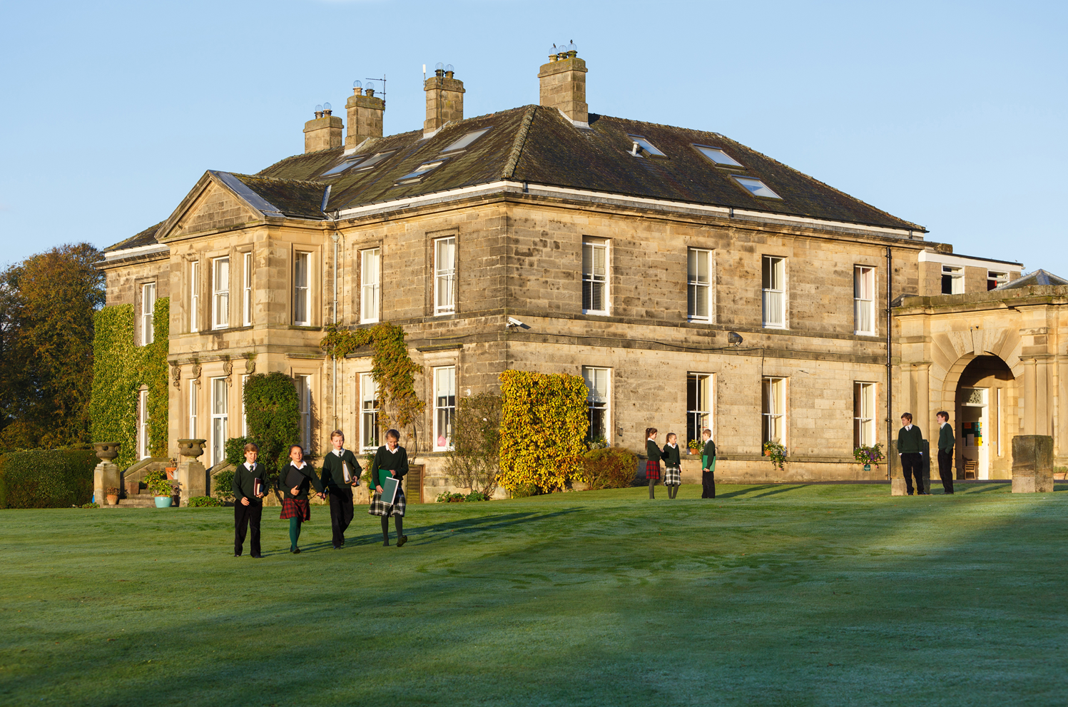 A Co Educational Day and Boarding School for children aged 3-13 years.